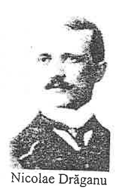 Romanian professor and philologist Nicolae Drăganu, deputy in the Great National Assembly from Alba Iulia - Romania, 1918Română: Nicolae Drăganu, profesor, filolog și deputat în Marea Adunare Națională de la Alba Iulia, 1918